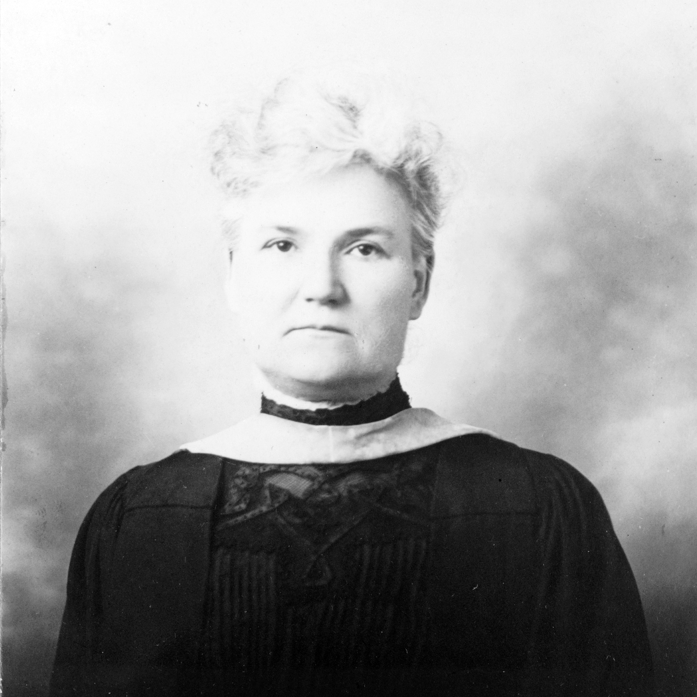 Ellen F. Pendleton, half-length portrait, facing front